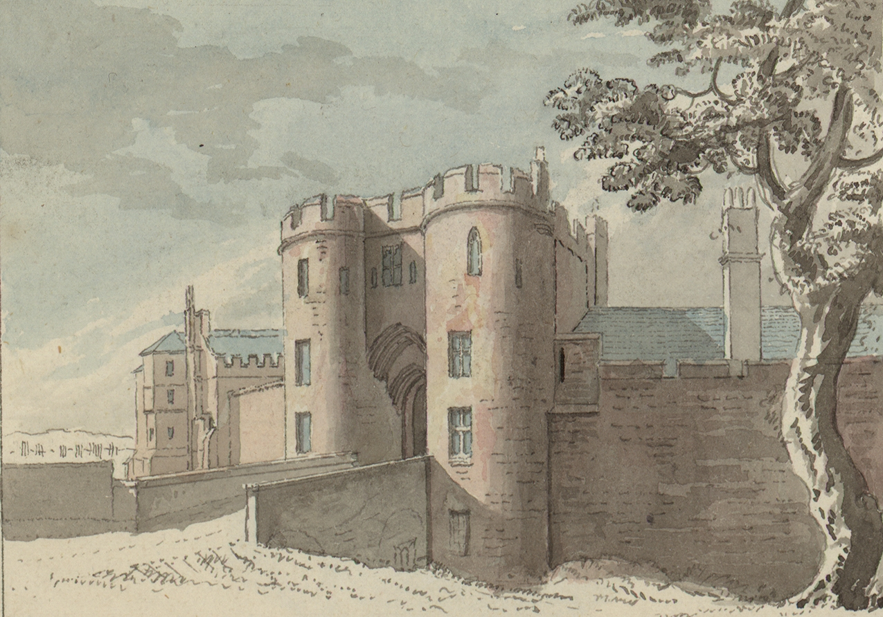 An image from a set of 8 extra-illustrated volumes of A tour in Wales by Thomas Pennant (1726-1798) that chronicle the three journeys he made through Wales between 1773 and 1776. These volumes are unique because they were compiled for Pennant's own library at Downing. This edition was produced in 1781. The volumes include a number of original drawings by Moses Griffiths, Ingleby and other well known artists of the period. Thomas Pennant (1726-1798)